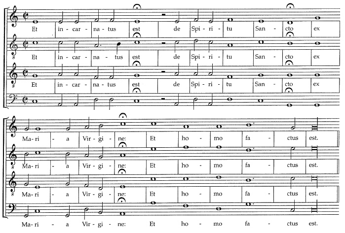 Example of the homorythmic texture of the 15th century